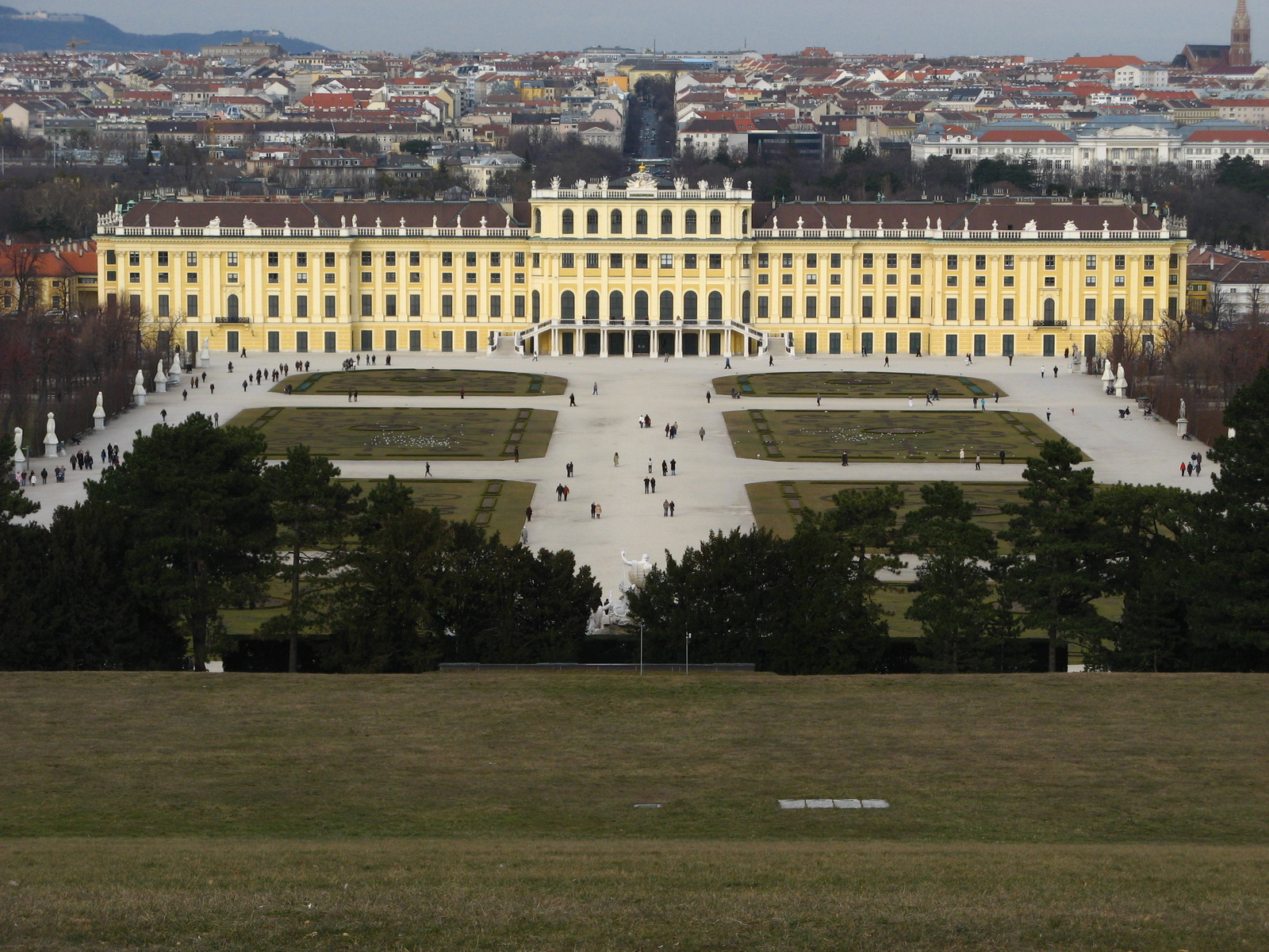 Austria, Vienna, Schönbrunn Palace